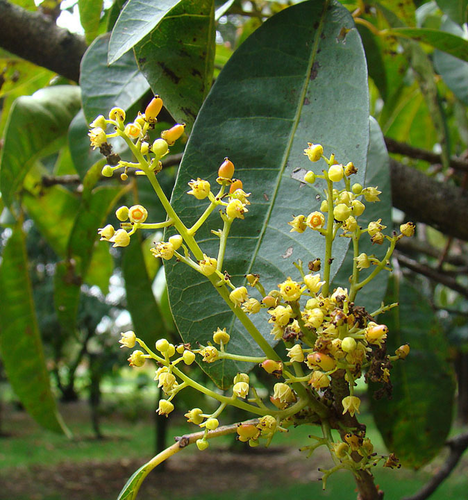 Mauria heterophylla (Pepeo Tree), Botanical Gardens, Bogota, Colombia